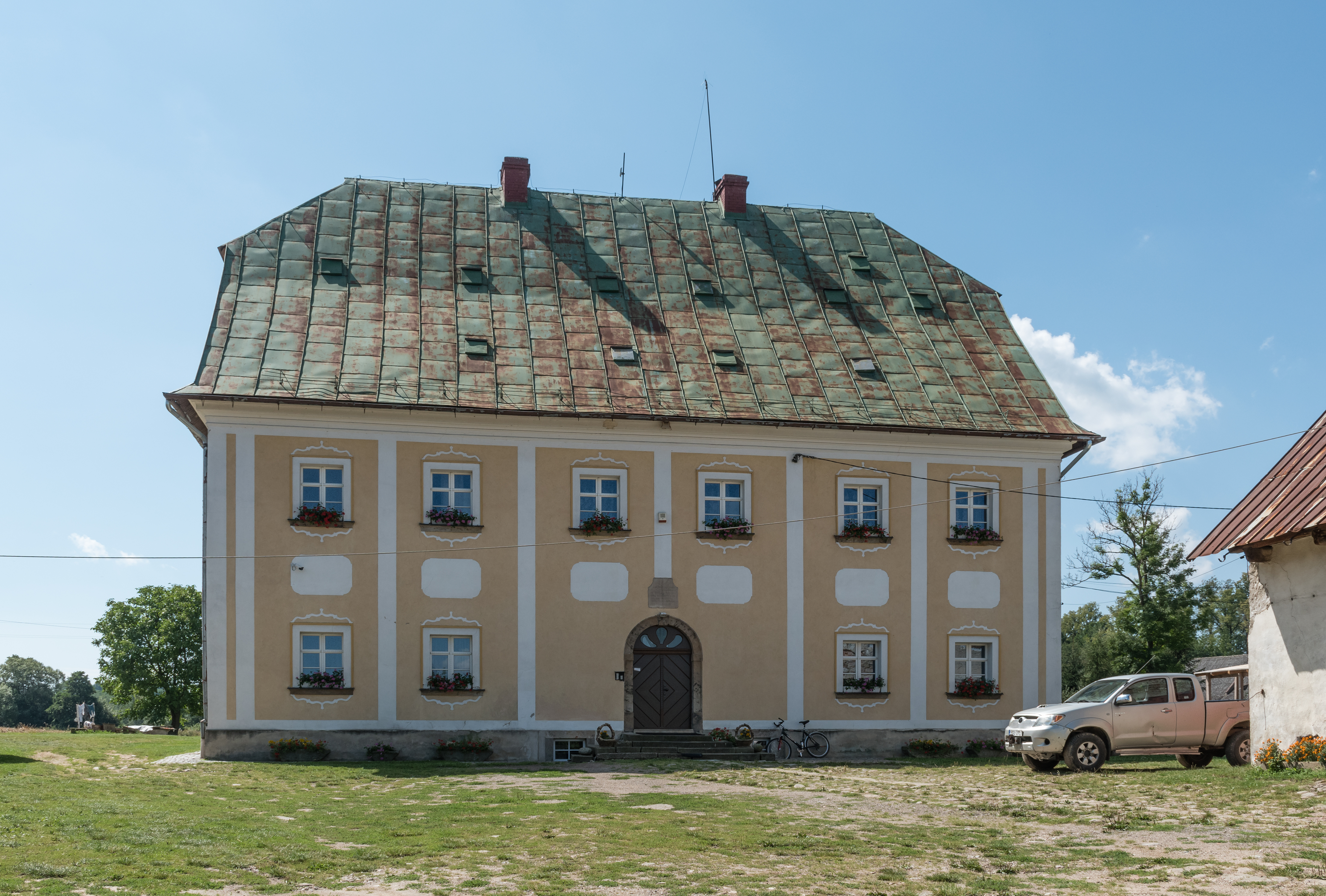 Rectory in Wilkanów Wikidata has entry Q30046683 with data related to this item.